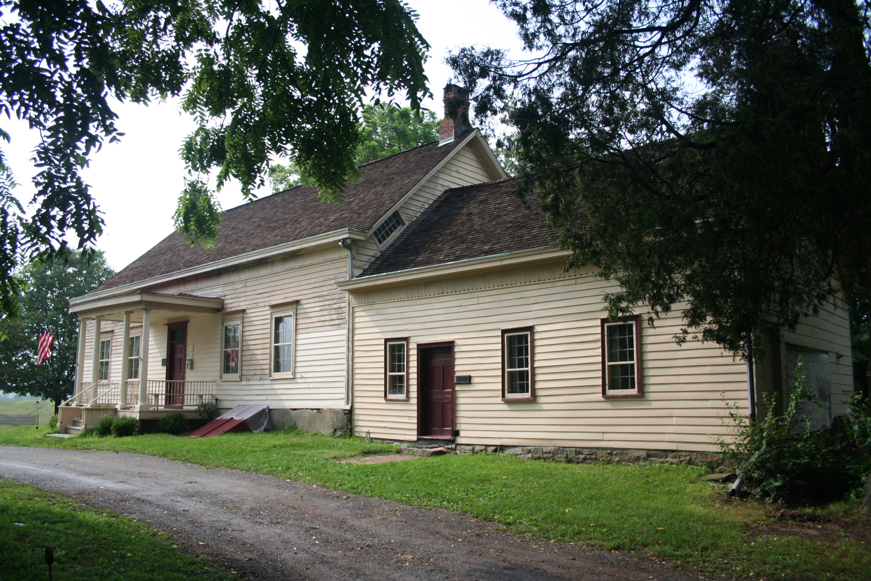 Photograph of the house of the Van Wyck Homestead in Fishkill, New York State, United States of America